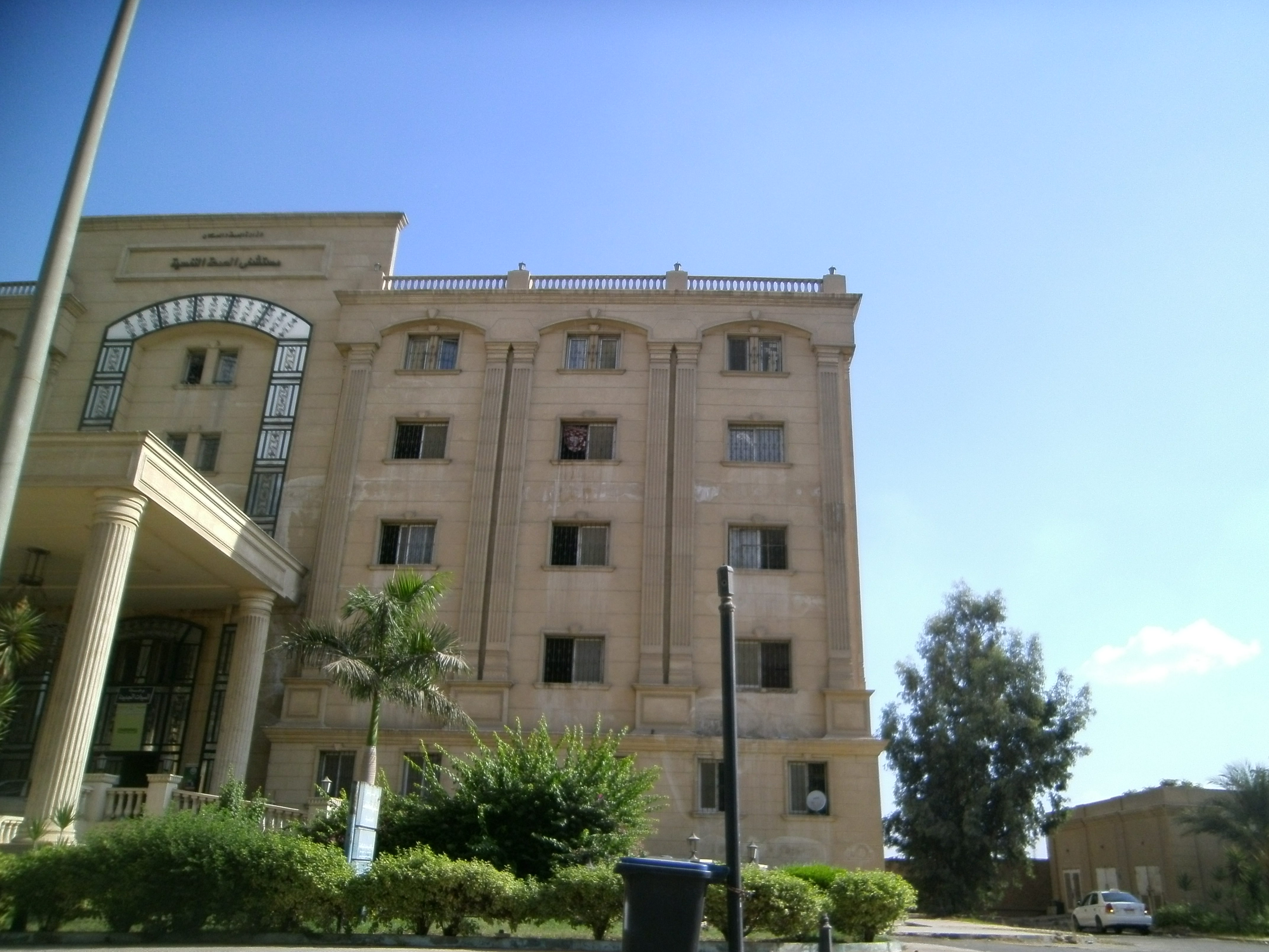 Abbasyia Mental health hospital